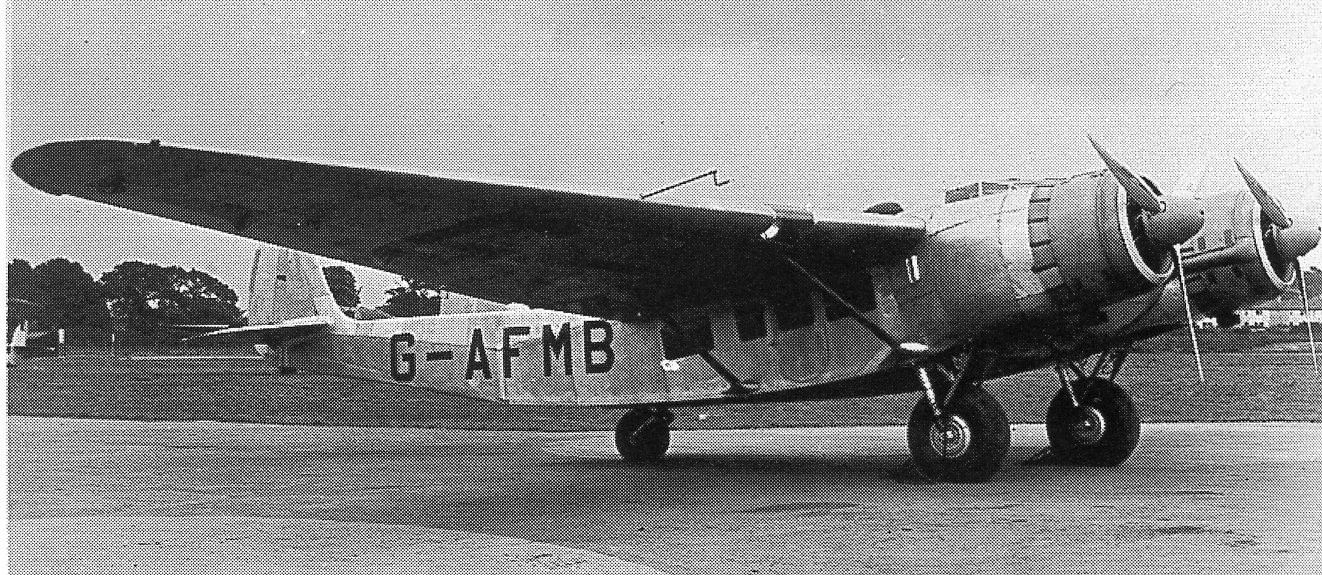 Cunliff-Owen O.A.1 in July 1939. Bristol Perseus XIVc engines.